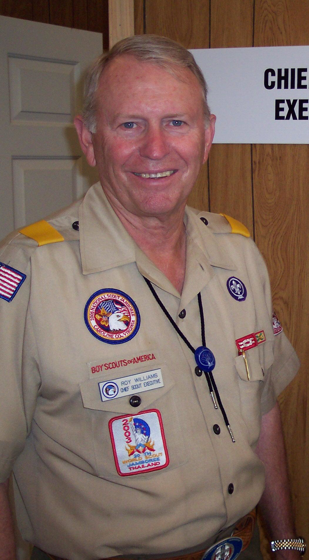 Photo of Roy Williams, former Chief Scout Executive, at the 2005 National Scout Jamboree